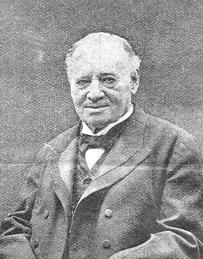 Picture of Rev Dr Christian David Ginsburg